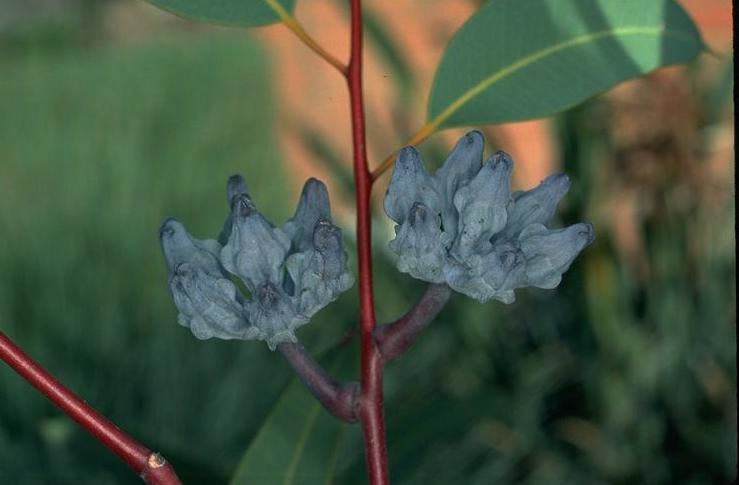 Flower buds of Eucalyptus miniata, photo taken at "Merv Hodge's", Brisbane